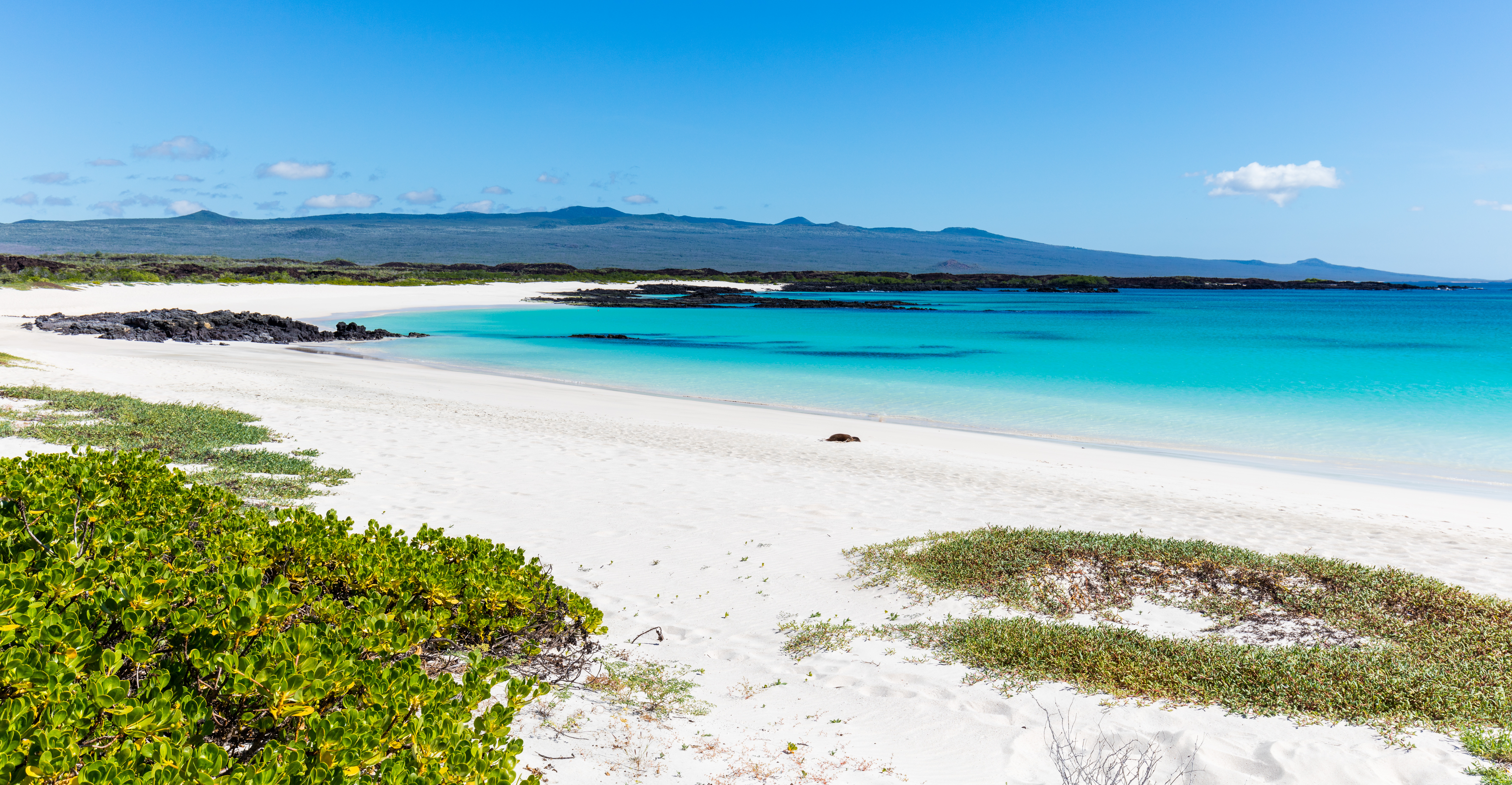 View of Cerro Brujo, San Cristobal Island, Galapagos Islands, Ecuador